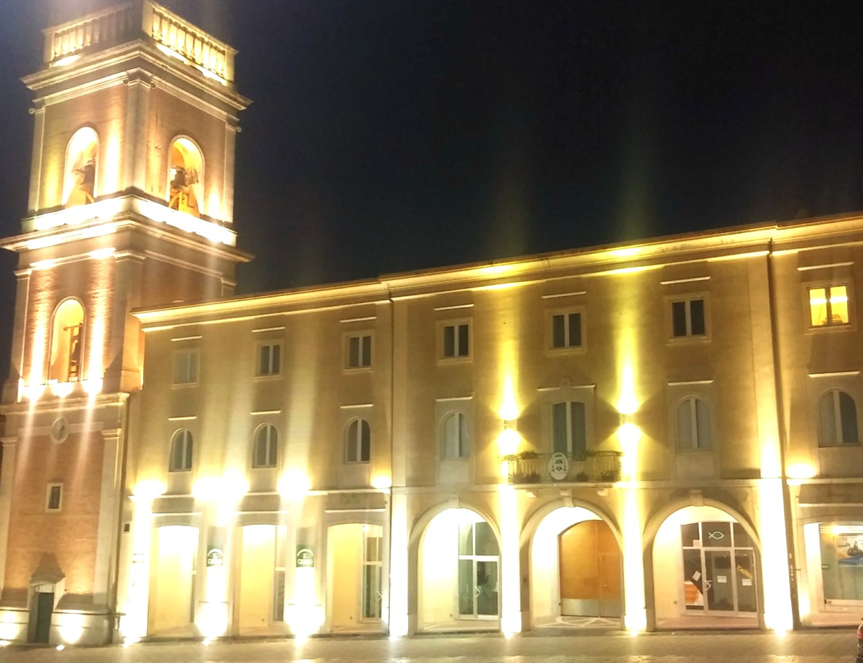 Bishop's palace and Diocesan library in Ariano Irpino, Italy